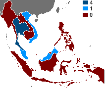 Label: 4 Titles 1 Titles 0 Titles